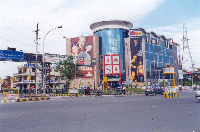 a mall in NOIDA sector-18 indian craft creations